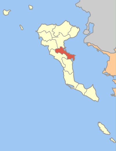 Locator map of Corfu municipality (Δήμος Κερκυραίων) in Corfu prefecture (Νομός Κέρκυρας) in Greece.